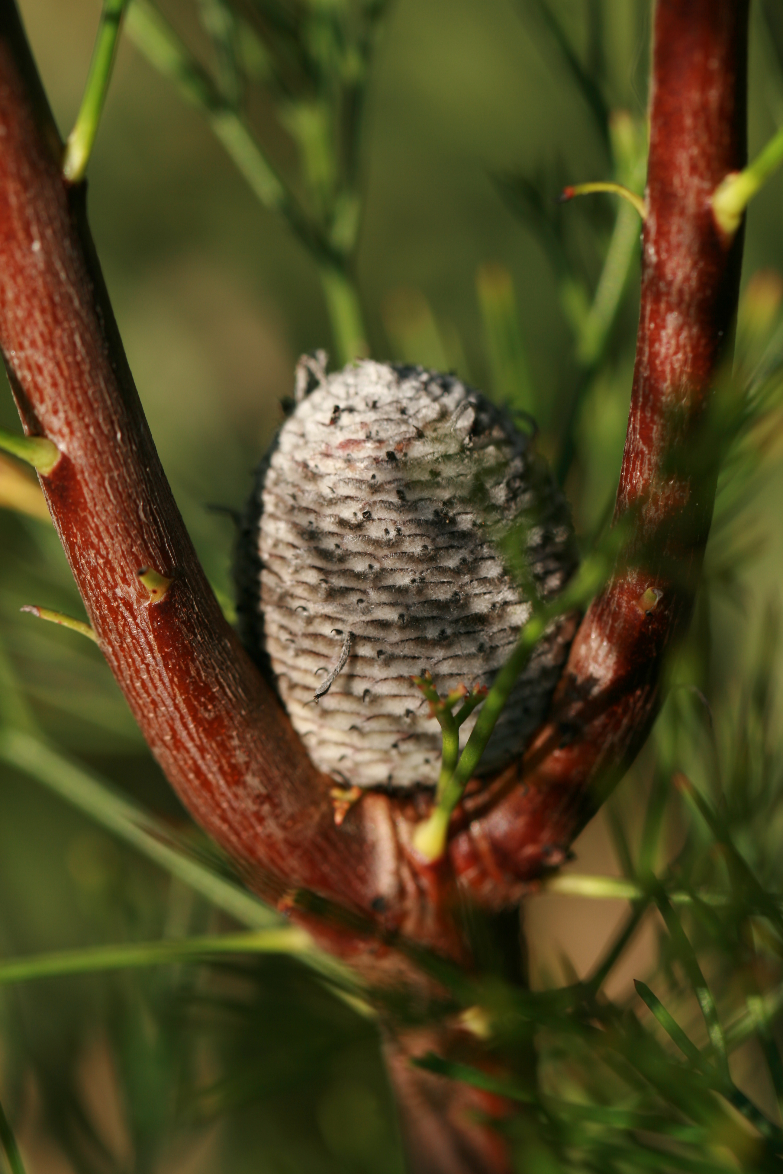 Isopogon anethifolius seedpod on Middle Head, Mosman, New South Wales, Australia.